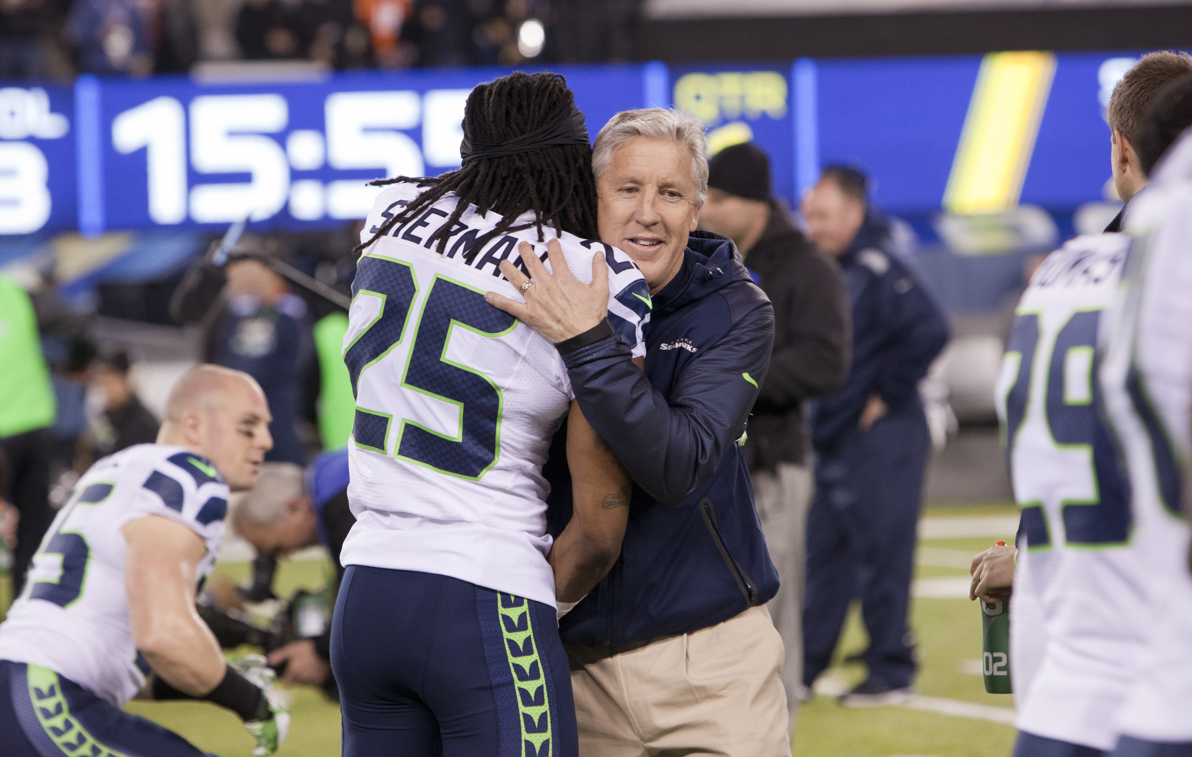 Richard Sherman and Pete Carroll of the Seattle Seahawks hugging